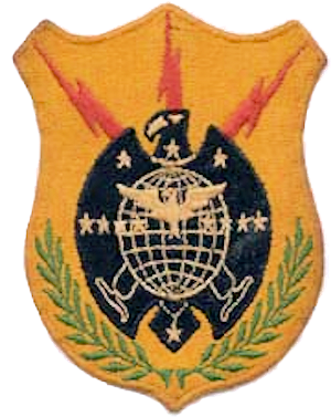 Emblem of the 381st Bombardment Squadron (SAC)